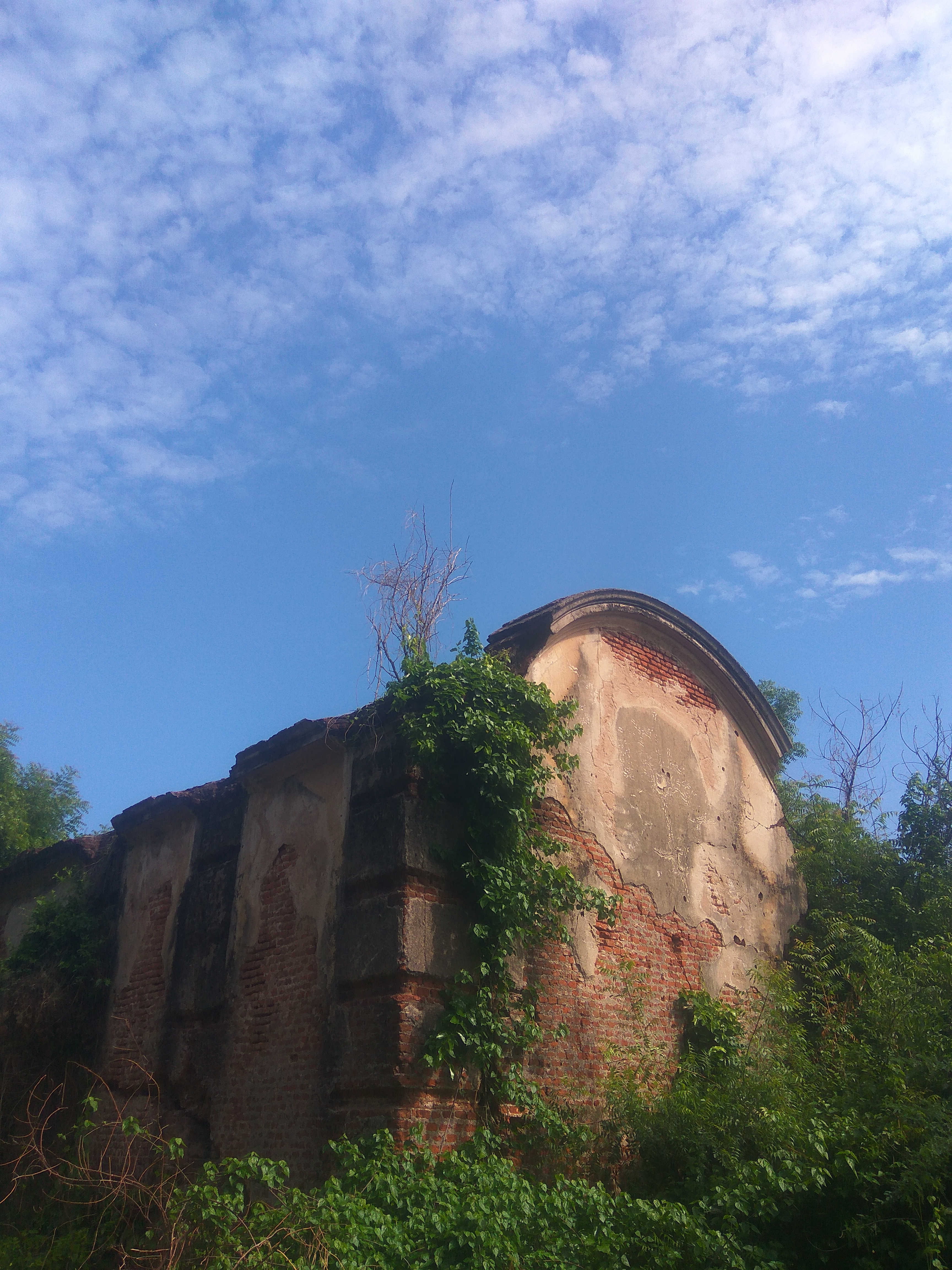 தியாகதுருகம் மலைக்கோட்டை தானியக் கிடங்கு